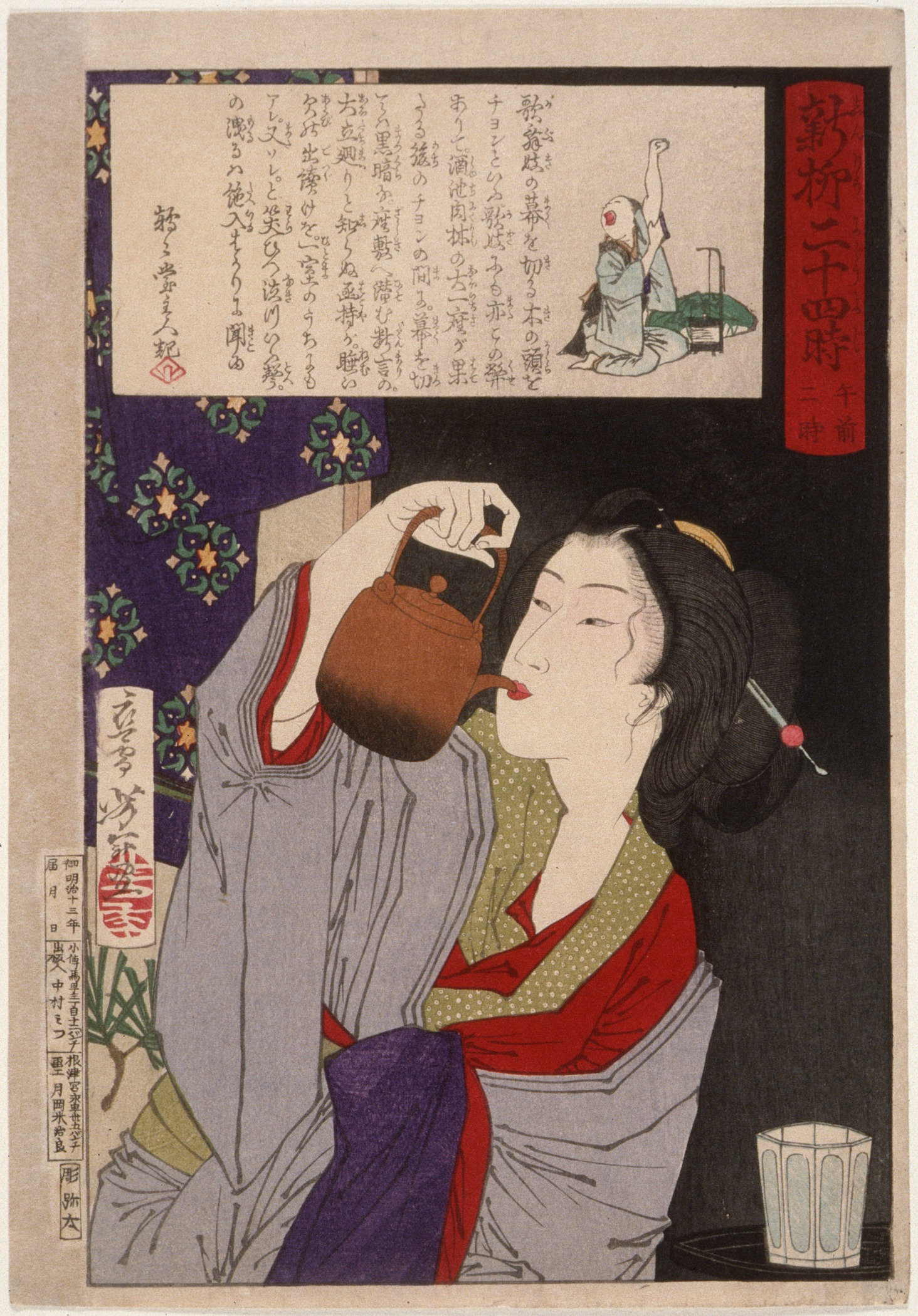 Japan, 1880, 10th month Series: Twenty-four Hours in Shinbashi and Yanagibashi Prints; woodcuts Color woodblock print Herbert R. Cole Collection (M.84.31.69) Japanese Art